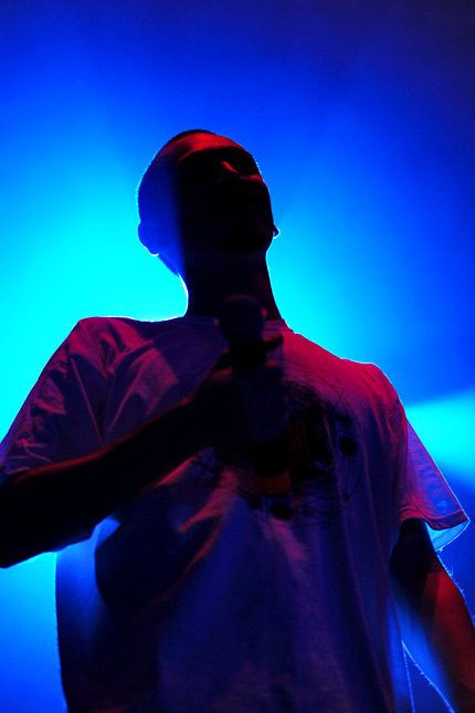 The Tounge @ Metro City (20/5/2011)